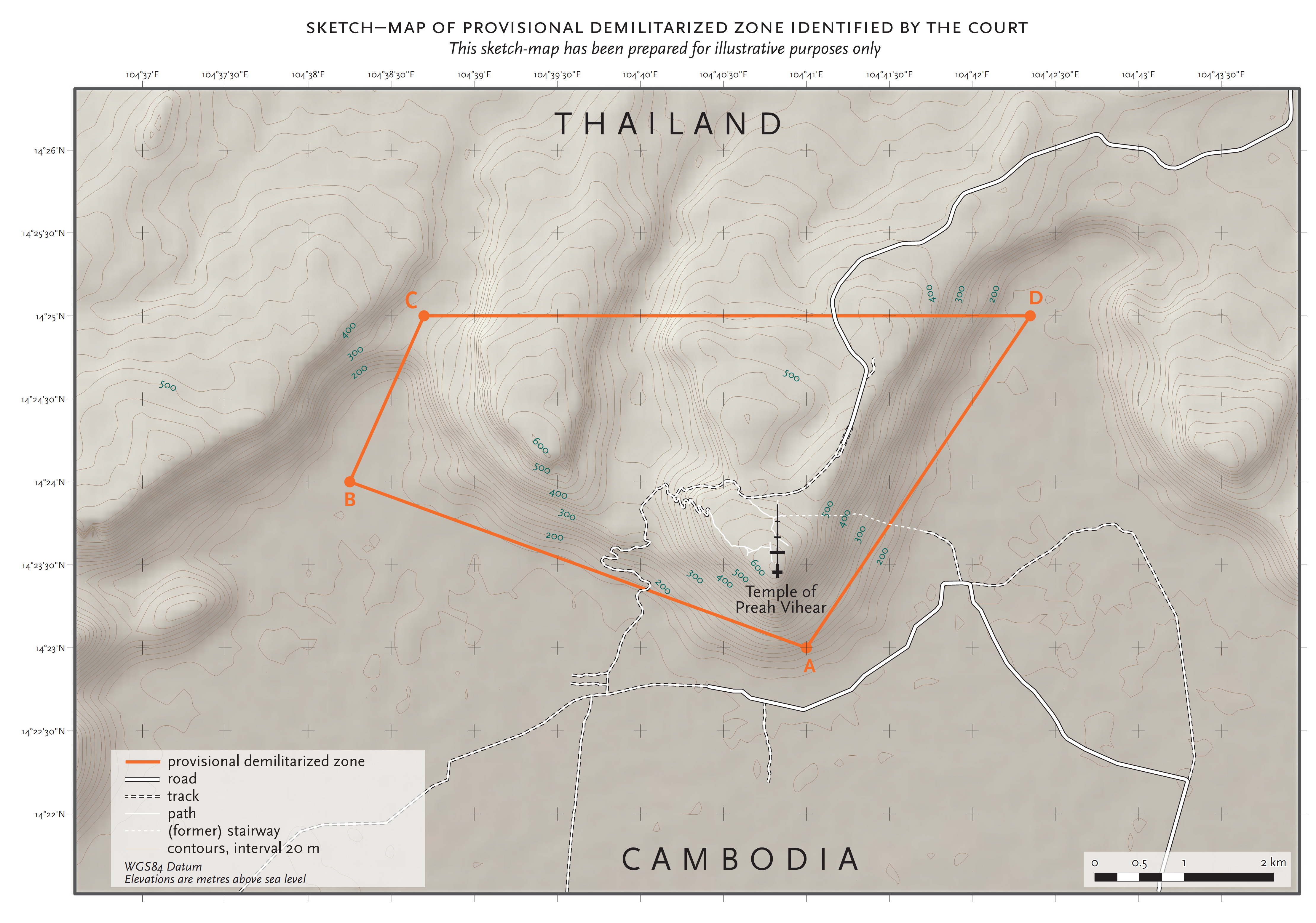 A sketched map of the provisional demilitarised zone determined by the International Court of Justice by its Order dated 18 July 2011. The zone lies between the territory of Thailand and that of Cambodia. The two countries are ordered by the Court to remove their military officers from the zone and refrain from all military activities in the zone, until a judgment is rendered.